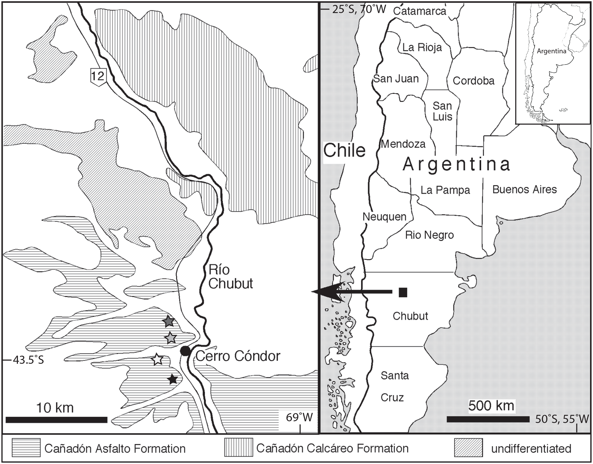 Cerro Condor Norte (dark grey asterisk) Sur (light grey asterisk), Las Chacritas (white asterisk) and Bagual (black asterisk) localities in Chubut, Argentina